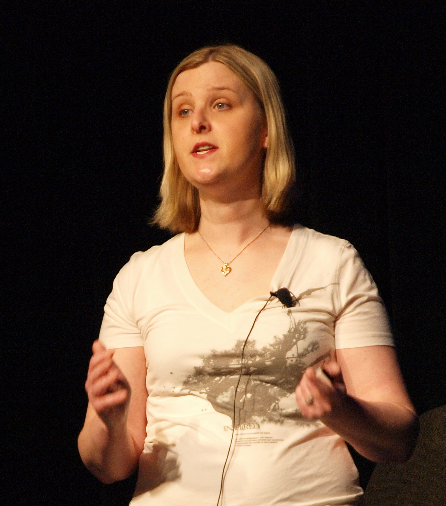 Christina Norman (BioWare at the Game Developers Conference 2010, speaking "Where did my inventory go? Refining gameplay in Mass Effect 2